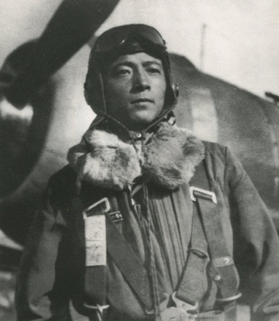 Toshio Anazawa